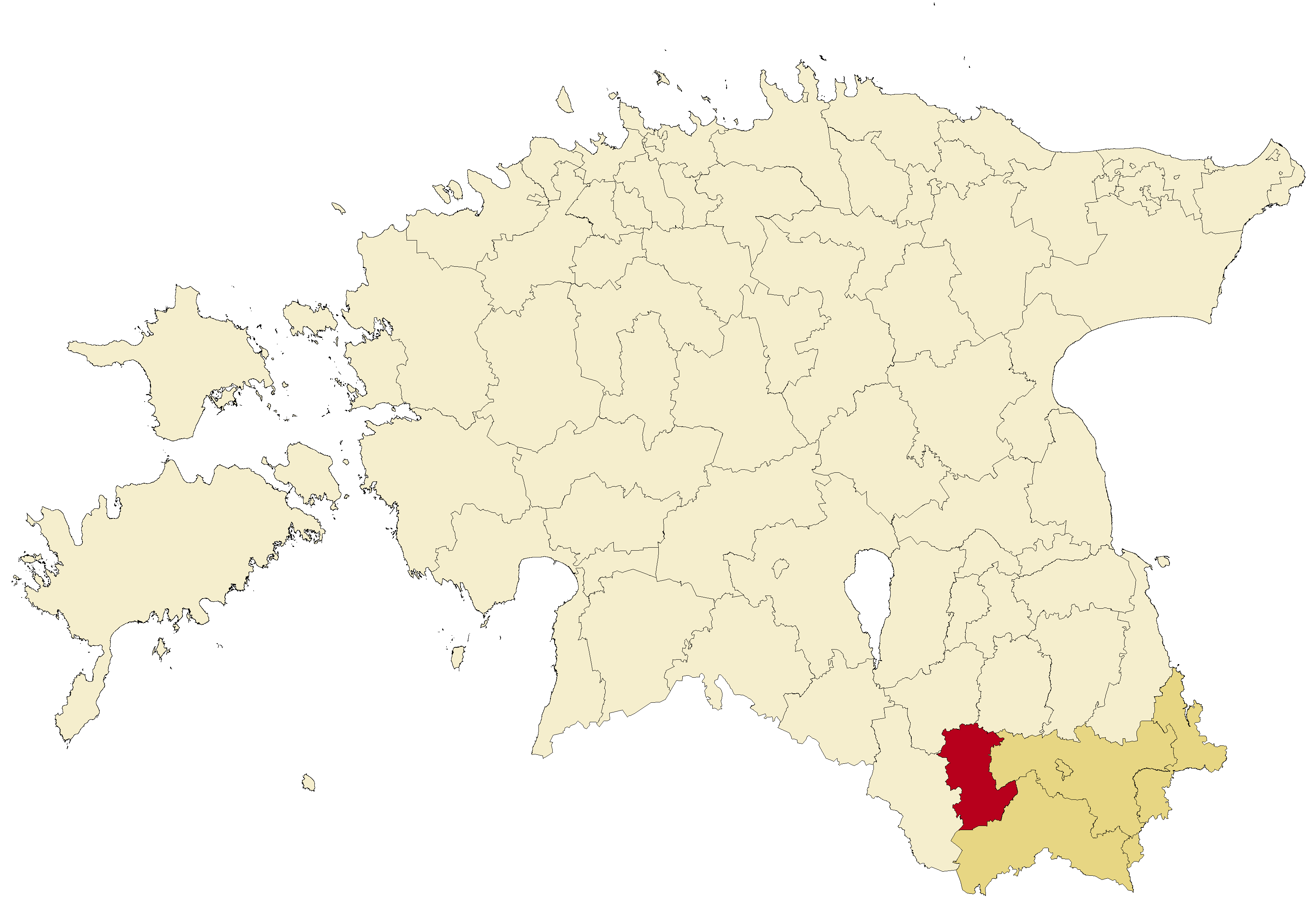 Location of Antsla Parish (red) within Võru County (dark yellow) after the Administrative Reform of Estonia in 2017.